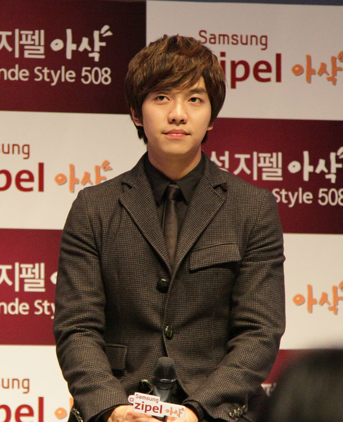 2011 Samsung Zipel Lee Seung-gi Fan meeting